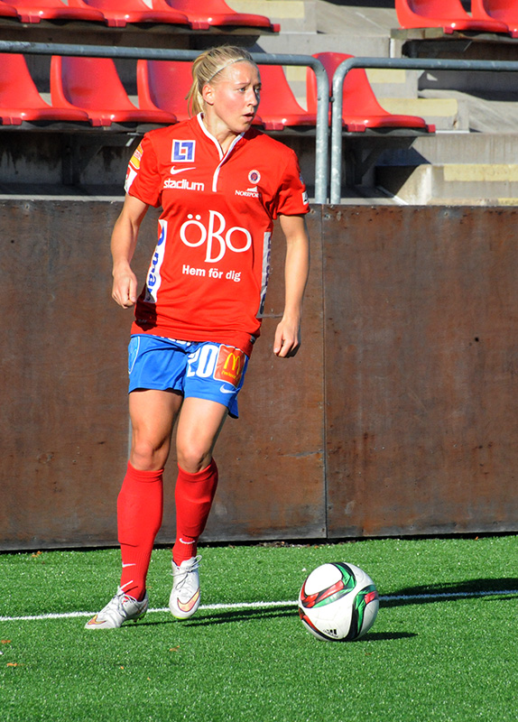 Julia Spetsmark playing for KIF Orebro